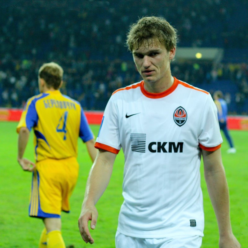 Oleksandr Hladkyi, Ukrainian footballer, during the game for Shakhtar Donetsk